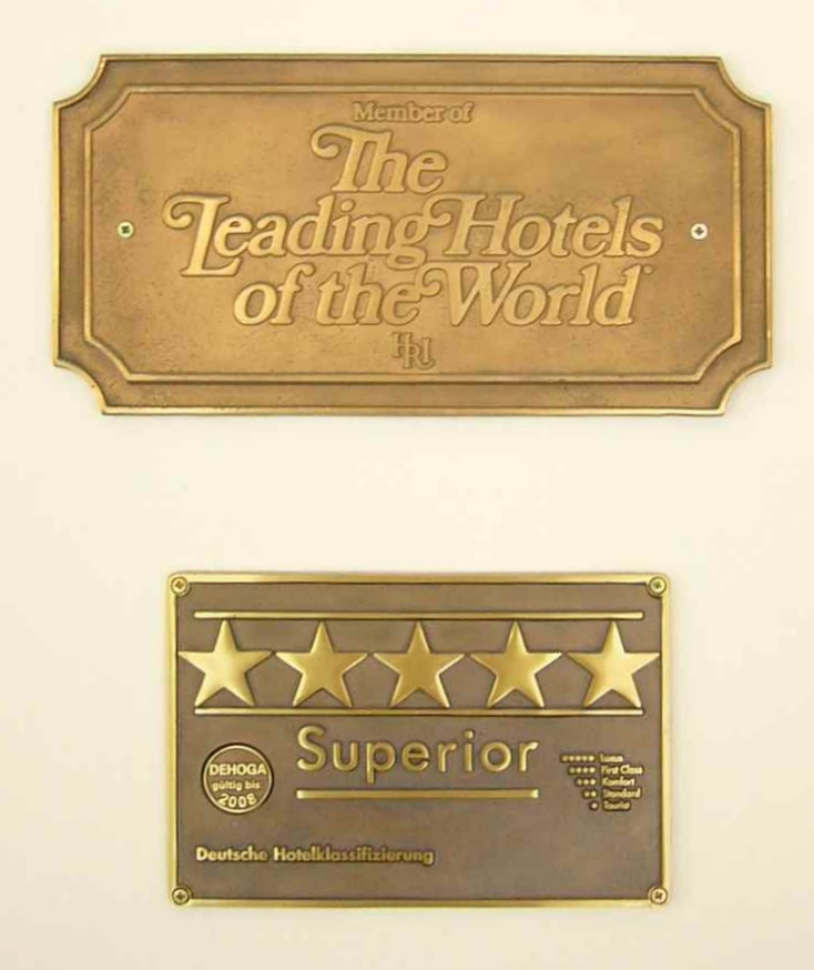 first sign: Sign of membership, The Leading Hotels of the World, Ltd. is the prestigious luxury hospitality organization representing more than 420 of the world's finest hotels, resorts and spas. Its HQ is in New York — second sign: Hotel rating stars — seen at Hotel Kempinski Vier Jahreszeiten Munich, Germany